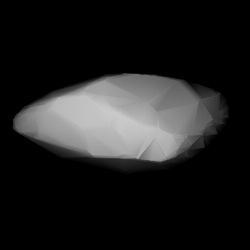 3D convex shape model of 3787 Aivazovskij, computed using light curve inversion techniques. J. Hanuš, J. Ďurech, M. Brož, B. D. Warner (June 2011). "A study of asteroid pole-latitude distribution based on an extended set of shape models derived by the lightcurve inversion method". Astronomy and Astrophysics 530: A134. ISSN 0004-6361. arXiv